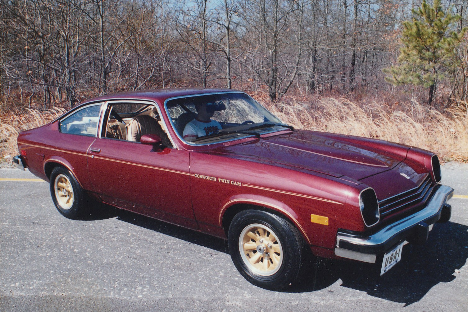 76 Chevrolet Cosworth Vega 2673